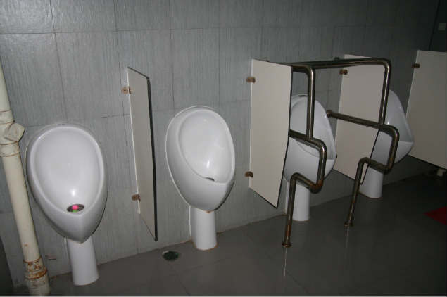 Waterless urinals, one includes grab bars to help persons with disabilities